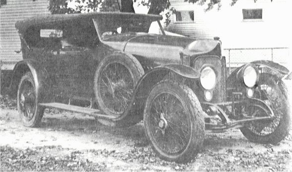 1915 F.R.P. Model 45 Series B Holbrook 7-passenger Touring car.